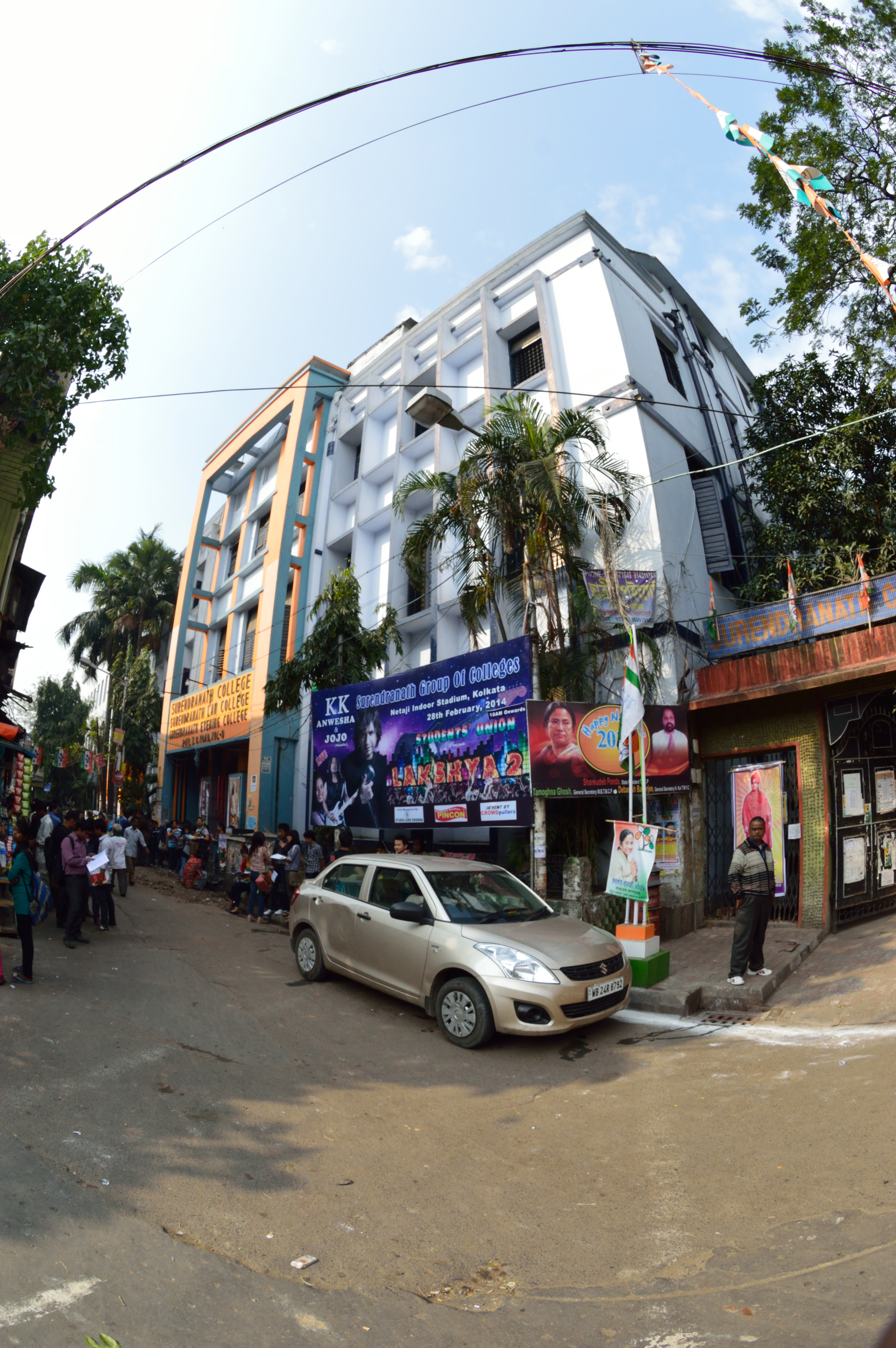 Photographed in Kolkata.